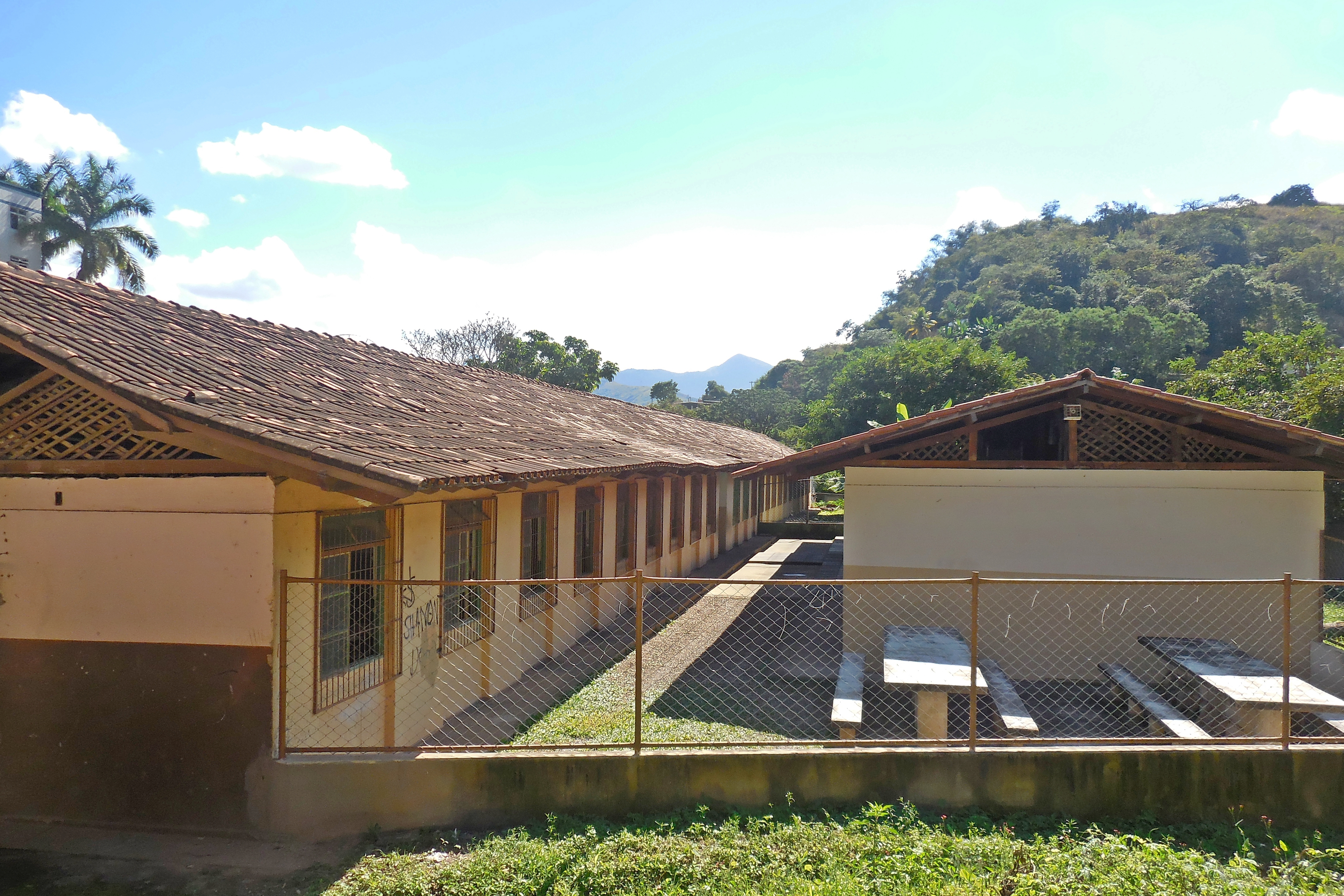 Partial view of the Doutor Querubino estadual school, em Coronel Fabriciano, Minas Gerais, Brazil.